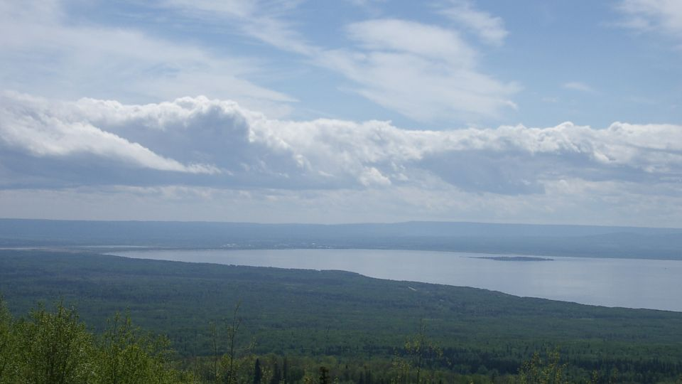 Summary View of the SE corner of Lesser Slave Lake from Martin Mountain (looking South). Dog Island, Devonshire Beach, and the town of Slave Lake are visible in the distance.